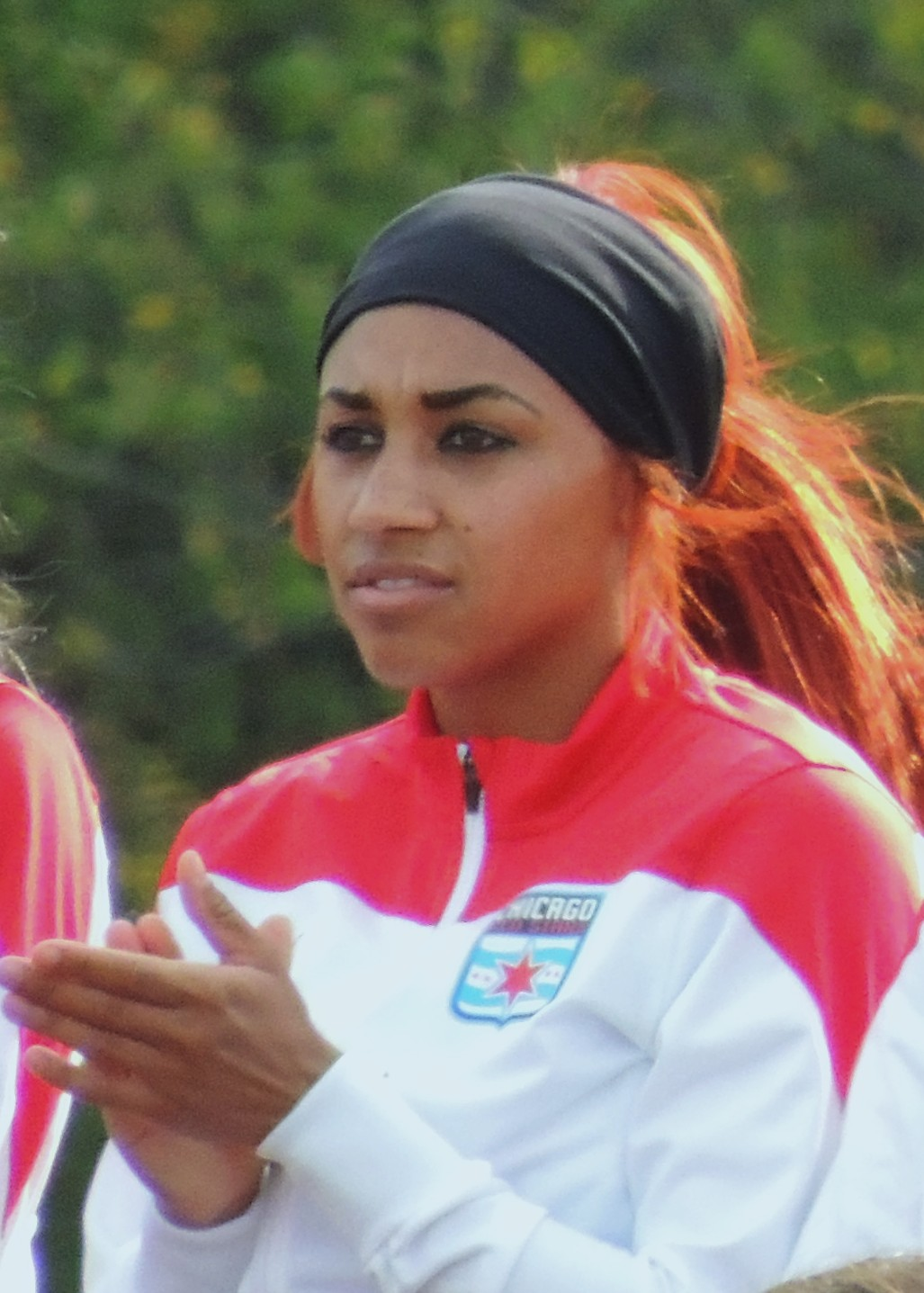 Samantha Johnson in starting lineup of Chicago Red Stars on May 2 2015